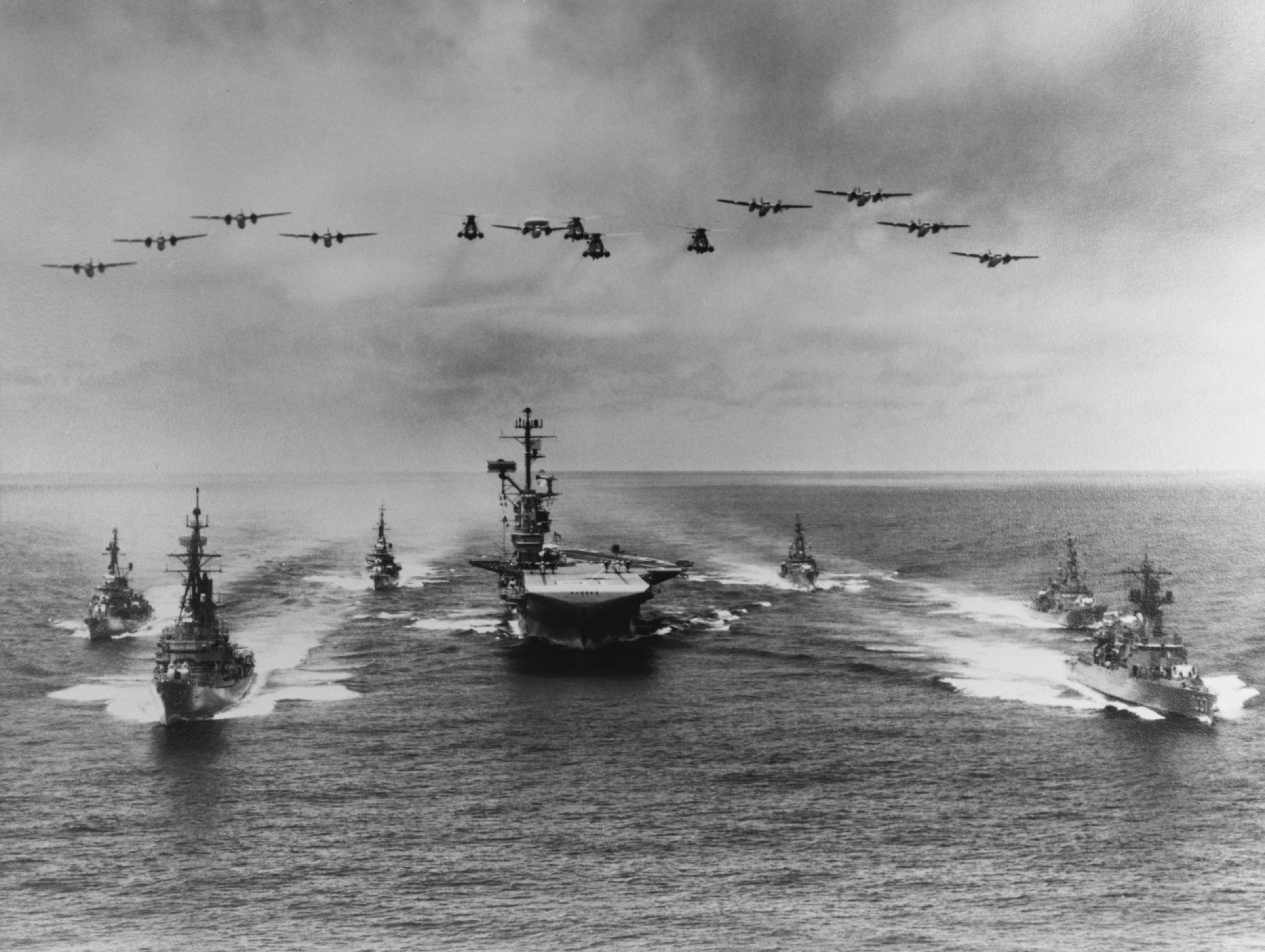 The U.S. Navy aircraft carrier USS Yorktown (CVS-10) in a posed formation with her escorts and some of her aircraft during Exercise Sea Imp, a major Southeast Asia Treaty Organization exercise conducted in the Western Pacific during the first part of 1966. The escorts are the guided missile destroyer USS Goldsborough (DDG-20) and the destroyers USS Taylor (DD-468) and USS Jenkins (DD-447) at left. The destroyer escort USS Bronstein (DE-1037) leads USS Hooper (DE-1026) and USS Bridget (DE-1024). Planes overhead include Grumman S-2E Trackers of Anit-Submarine Squadron 23 (VS-23) "Black Cats" and VS-25 "Golden Eagles", a Grumman E-1B Tracer of Carrier Airborne Warning Squadron 11 Det.T "Early Eleven" and Sikorsky SH-3A Sea Kings from Helicopter Anti-Submarine Squadron 4 (HS-4) "Black Knights". All squadrons were assigned to Carrier Anti-Submarine Air Group 55 (CVSG-55) aboard the Yorktown for a deployment to the Western Pacific and Vietnam from 5 January to 27 July 1966.